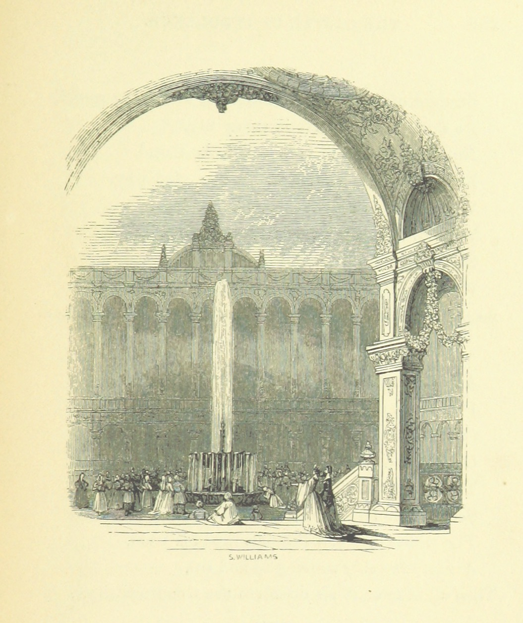 Image taken from: Title: "The Seasons, and the Castle of Indolence ... With a biographical and critical introduction by A. Cunningham, etc", "Two or more Works" Author: Thomson, James Contributor: Cunningham, Allan Contributor: WILLIAMS, Samuel - Wood Engraver Shelfmark: "British Library HMNTS 11643.h.17." Page: 297 Place of Publishing: London Date of Publishing: 1841 Publisher: Tilt and Bogue Issuance: monographic Identifier: 003626222 Explore: Find this item in the British Library catalogue, 'Explore'. Download the PDF for this book (volume: 0) Image found on book scan 297 (NB not necessarily a page number) Download the OCR-derived text for this volume: (plain text) or (json) Click here to see all the illustrations in this book and click here to browse other illustrations published in books in the same year. Order a higher quality version from here.